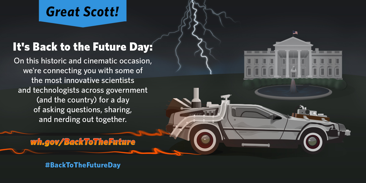 Great Scott! It’s almost #BackToTheFutureDay. We’ll be celebrating at the White House with a series of conversations with innovators from around the world.